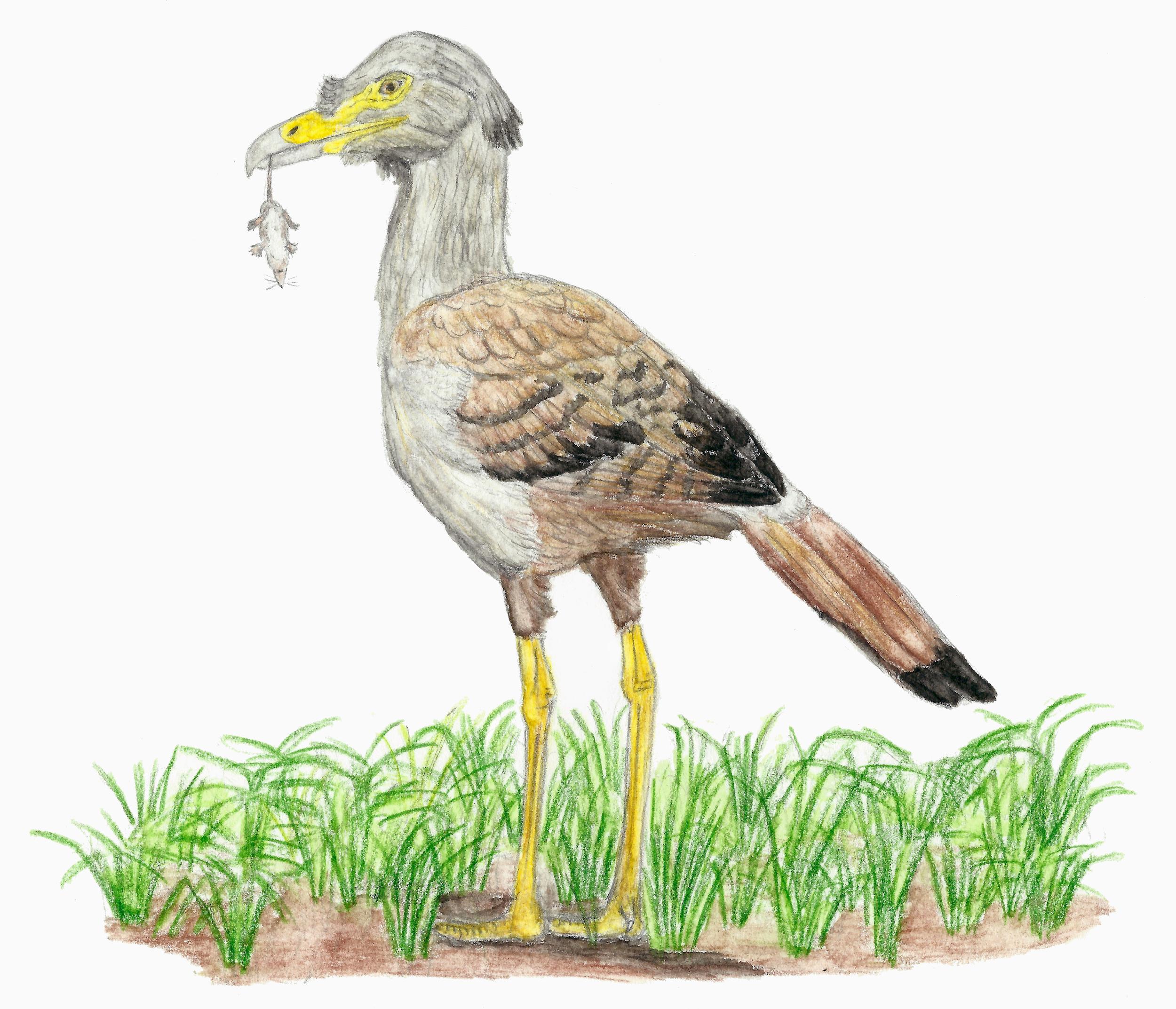 Life restoration of Bathornis grallator, a flightless predatory bird from the Oligocene of North America.